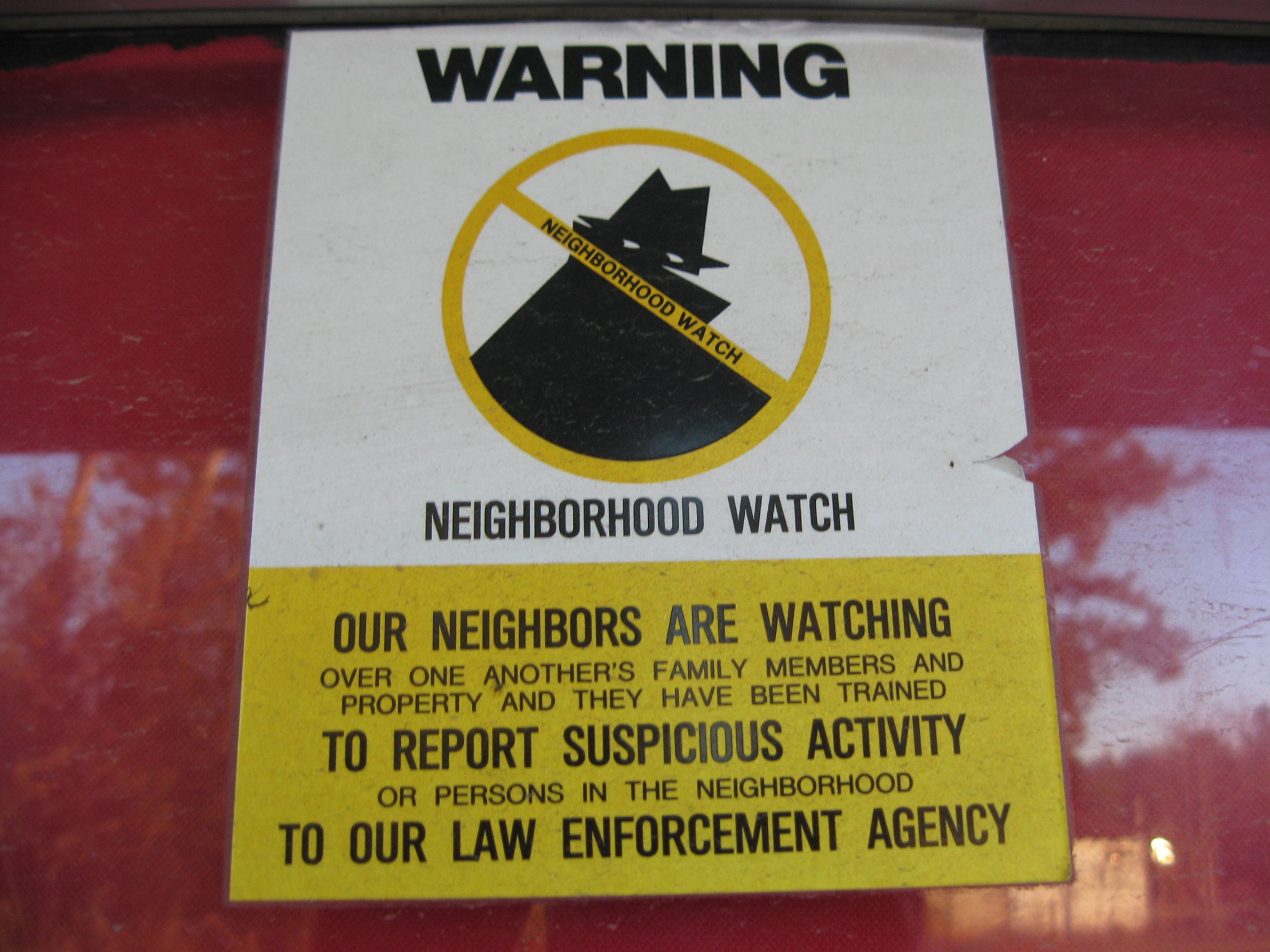 A neighborhood watch sign attached to a door.